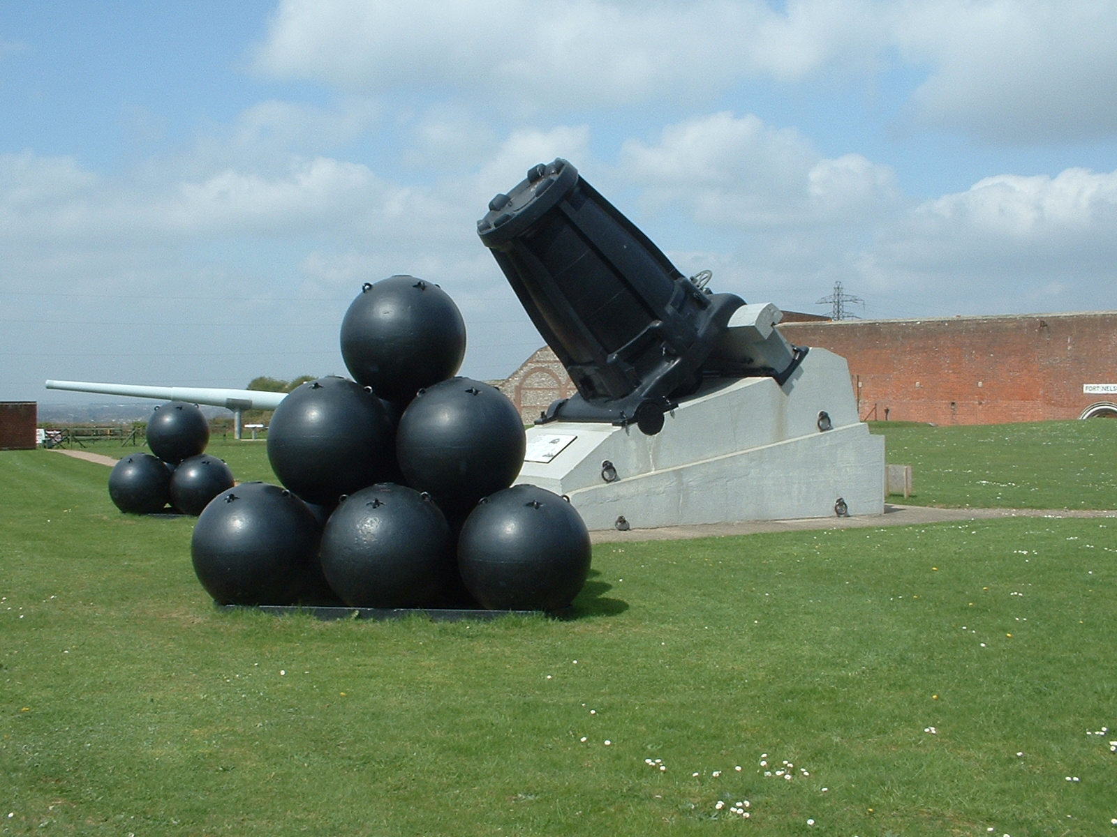 Mallet's mortar at Fort Nelson (Royal Armouries). Photographed on 25-Apr-06.